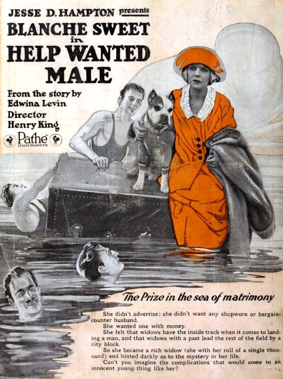 Advertisement for the American comedy film Help Wanted - Male (1920) with Blanche Sweet, on page 100 (back cover) of the September 25, 1920 Exhibitors Herald.